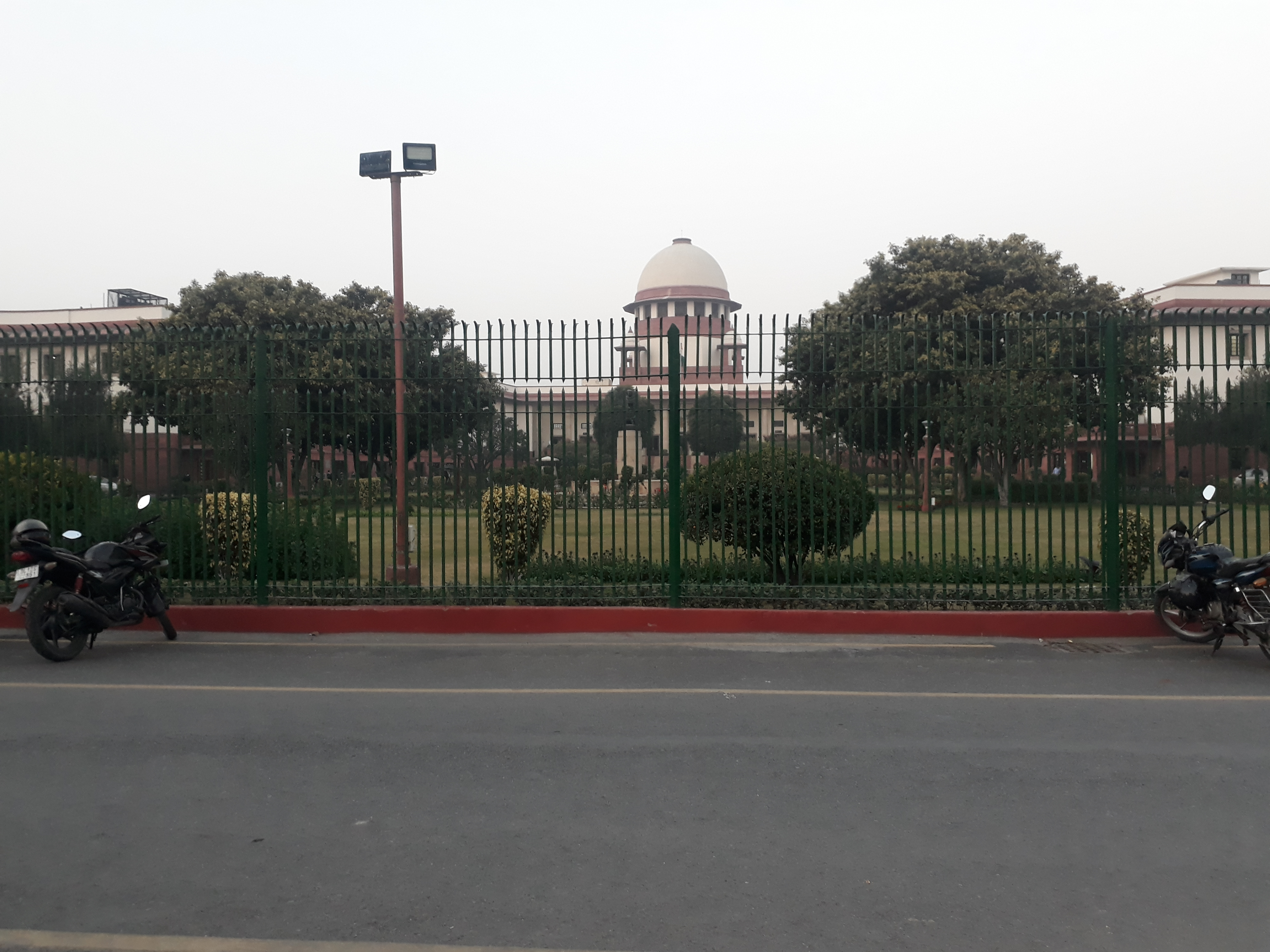 Supreme Court of India, Talak Marg in New Delhi